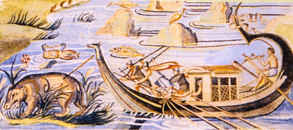 Detail of Nile mosaic from Palestrina (section 12). Copy of Cassiano dal Pozzo (around 1630). The Royal Collection, Windsor castle.